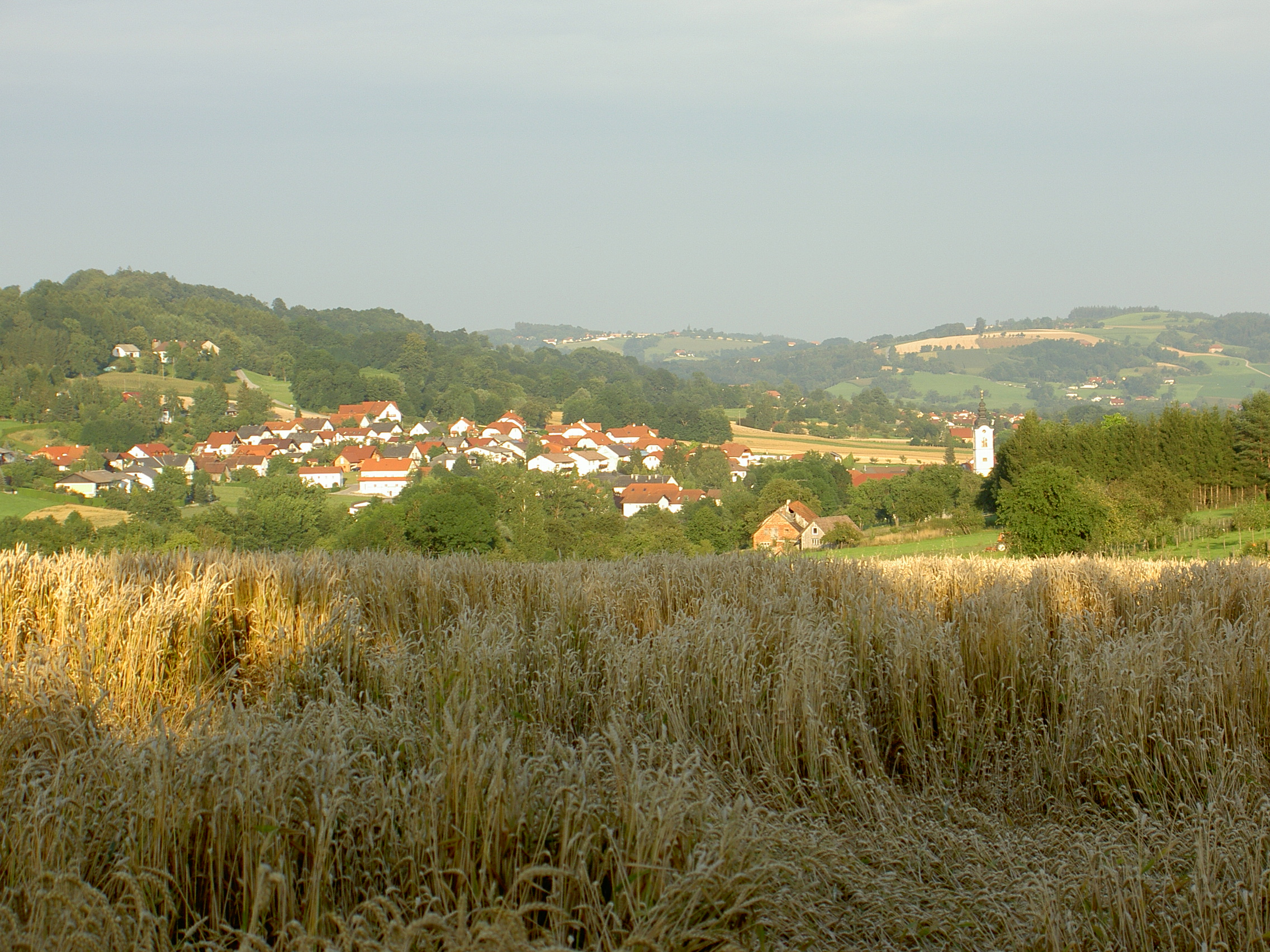 St. Marienkirchen an der Polsenz seen from west direction